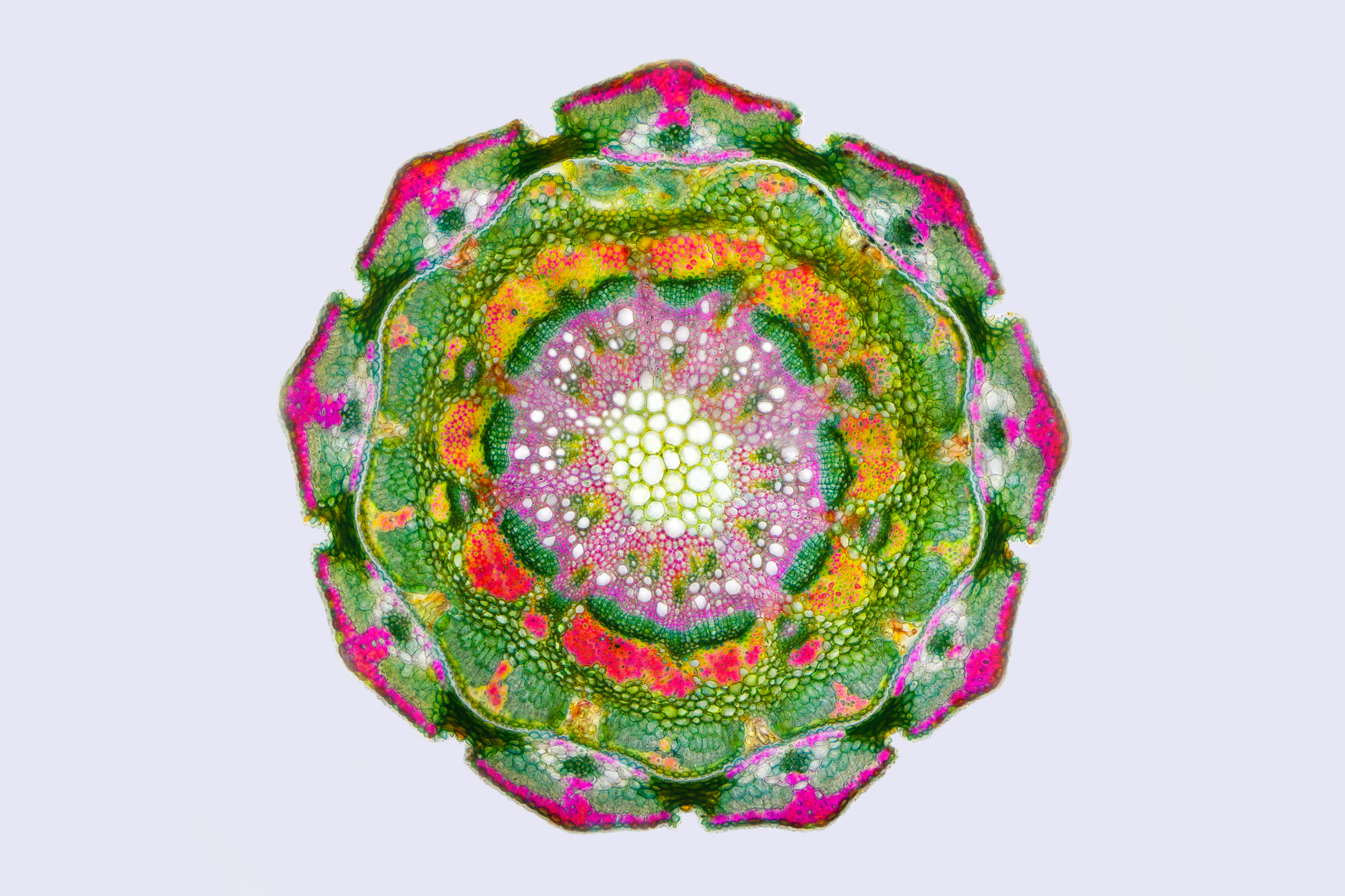 Cross-section of a shoot of an ancient dicotyledon - Casuarina equisetifolia subsp. equisetifolia This evergreen plant grows in Australia and western Oceania Islands. Soft segmented shoots like an equisetum move away from the tree branches. The scaly leaves are arranged in whorls. This mount is valuable because the cross-section shows tissues of segmented shoots and scaly leaves together. Cross-section diameter: 1mm, cross-section thickness: 20 µm The authorial prepared mount, authorial technique of polychrome painted tissues Light microscopy, bright-field in transmitted light, focus stacking – 6 sectors with 14-16 images in every one